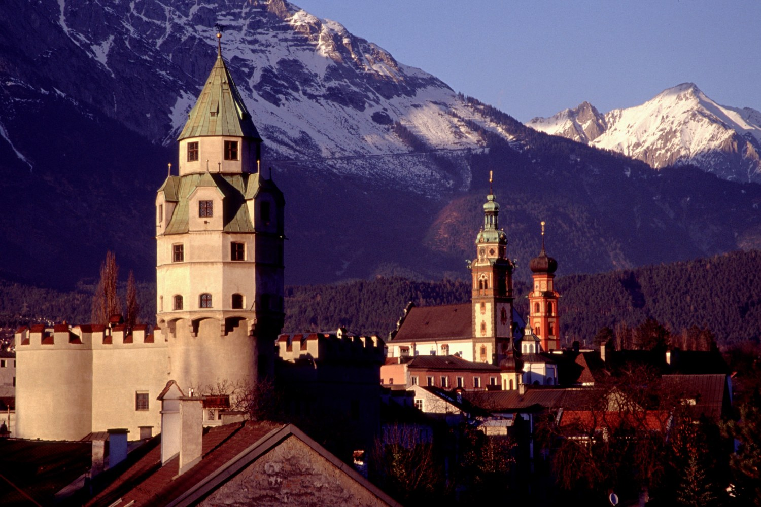 The towers of Hall in Tirol with the Nordkette mountains